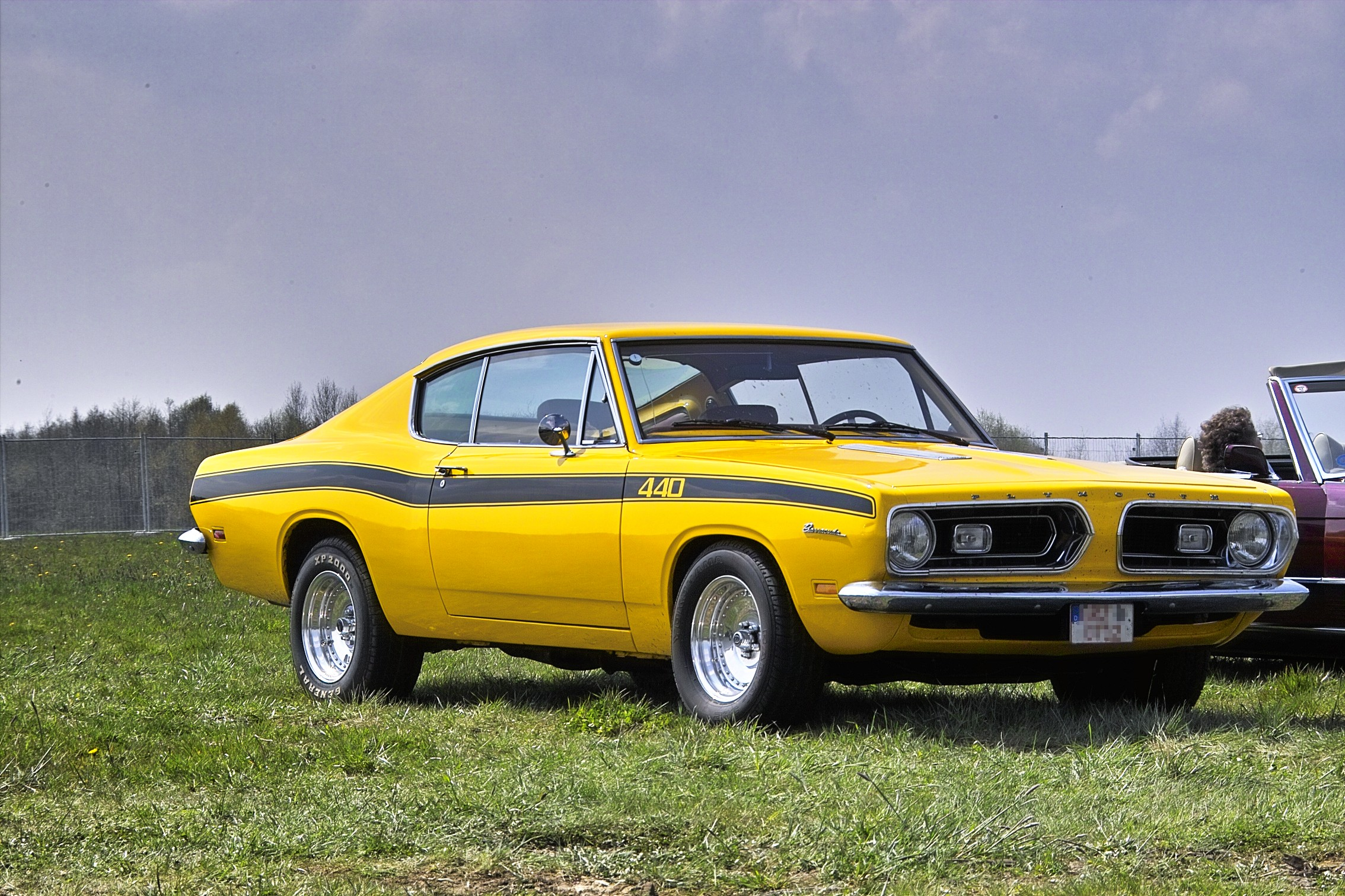 1969 Plymouth Barracuda 440, shot at Fluplatzfest 2008, Eisenach/Kindel